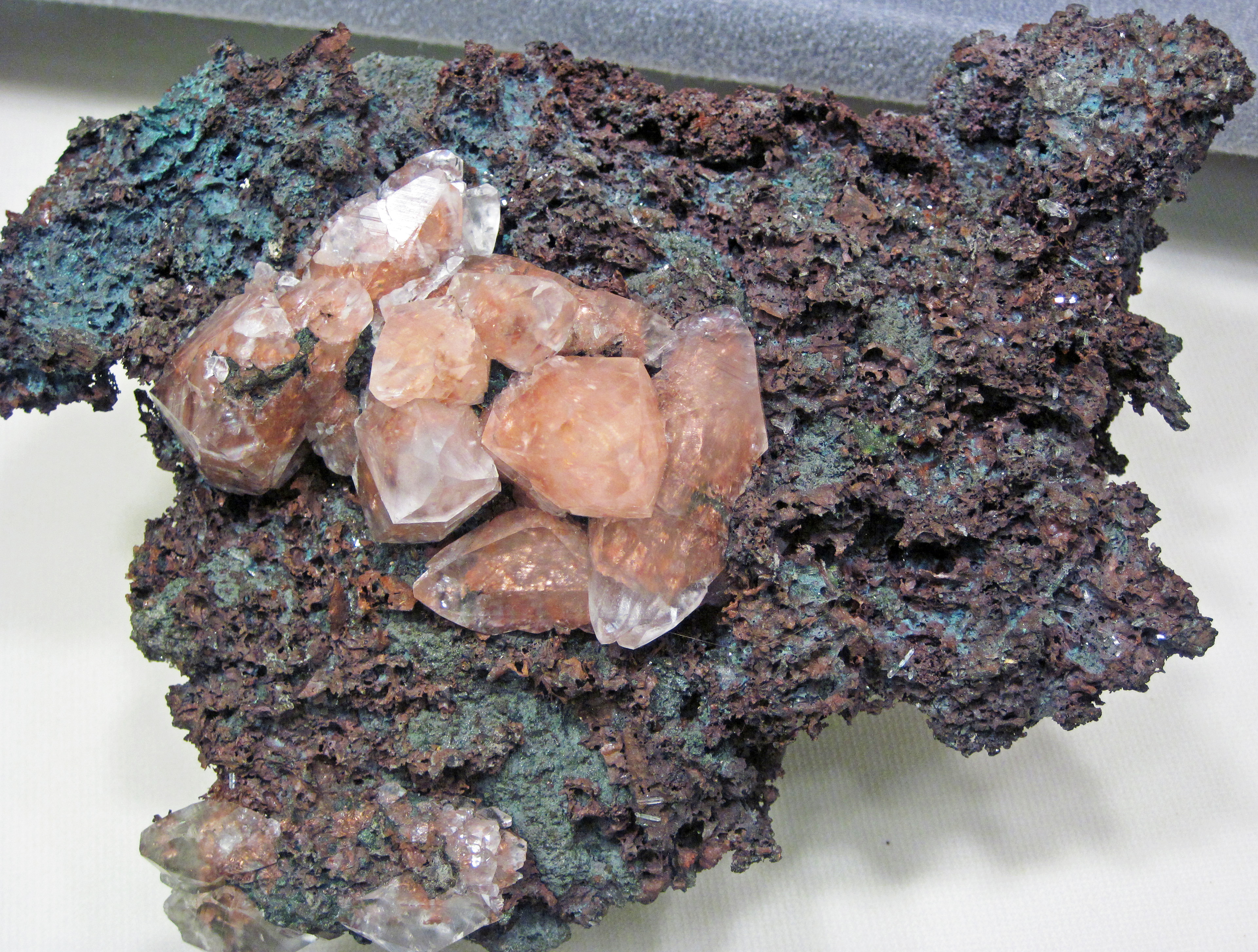 Native copper (Cu) in calcite crystals on copper from the Precambrian of northern Michigan, USA. (Terry Huizing collection) The bedrock in northern Michigan's Keweenaw Peninsula area with Earth's highest concentration of elemental copper (Cu) in its native state. The copper has been extensively mined, but only one active mine remains (all the easily exploited copper is now mined out). Copper usually occurs in various late Mesoproterozoic-aged basaltic rocks and conglomerates. A beautiful and rare occurrence for native copper in northern Michigan is WITHIN other crystals. The above photo shows transparent to translucent calcite crystals having metallic orange-colored inclusions of native copper. Stratigraphy & age: derived from the upper Portage Lake Volcanic Series, upper Mesoproterozoic (1.093 Ga); copper & calcite mineralization age is late Mesoproterozoic (1.05 to 1.06 Ga). Locality: Quincy Mine, city of Hancock, north of Portage Lake, Keweenaw Peninsula, Houghton County, northwestern Upper Peninsula of Michigan, USA.